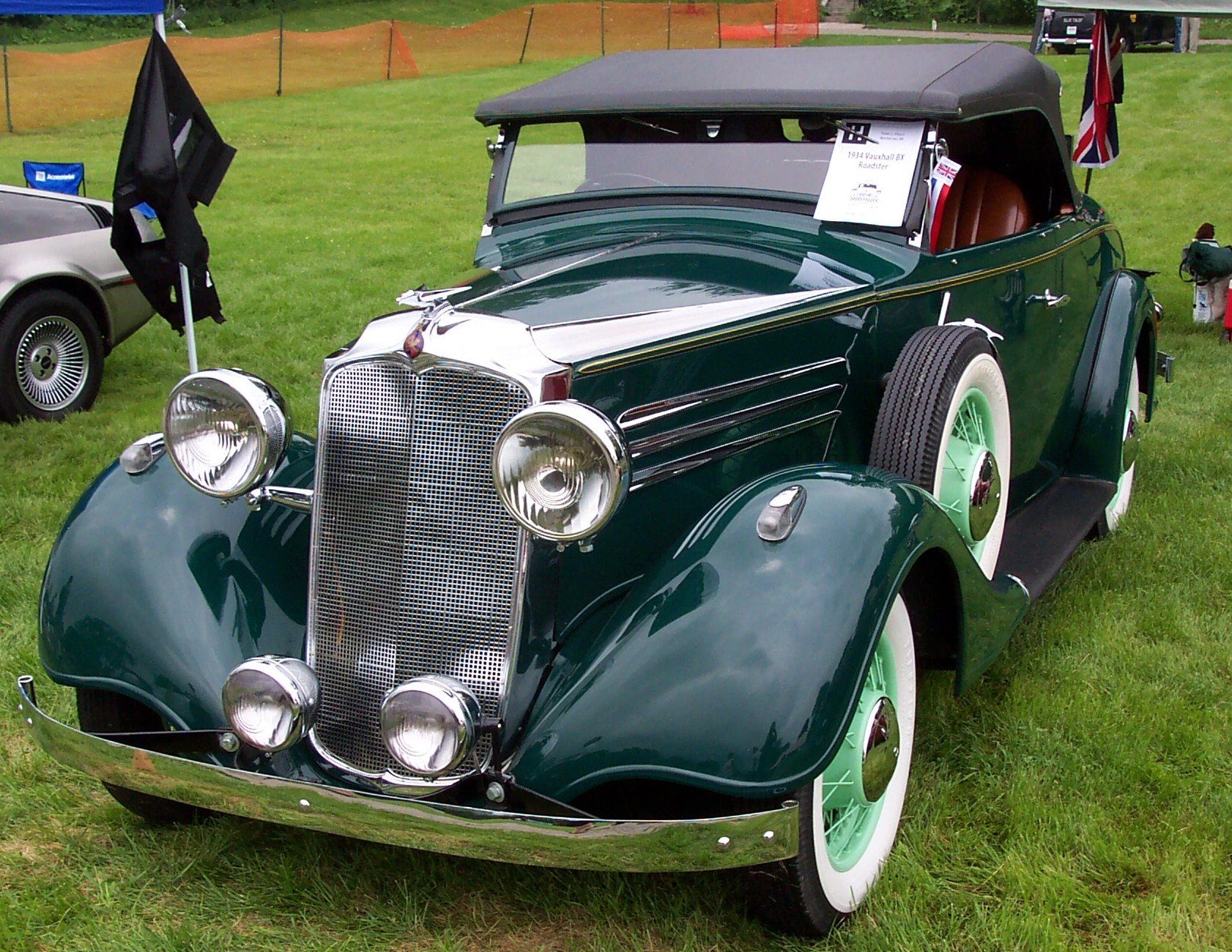 Holden bodied Vauxhall at the Orphan Car Show 1934 Vauxhall BX Roadster (from sign on windscreen)